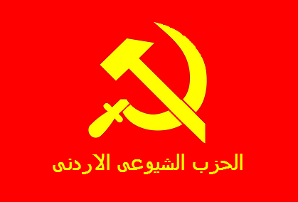 Flag of the Jordanian Communist Party. Based on gid=28599592120#/photo.php?pid=30092221&op=1&o=all&view=all&subj=28599592120&aid=-1&oid=28599592120&id=1472506433 . Design is not exact.